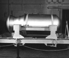 Casing of a U.S. W53 thermonuclear warhead.